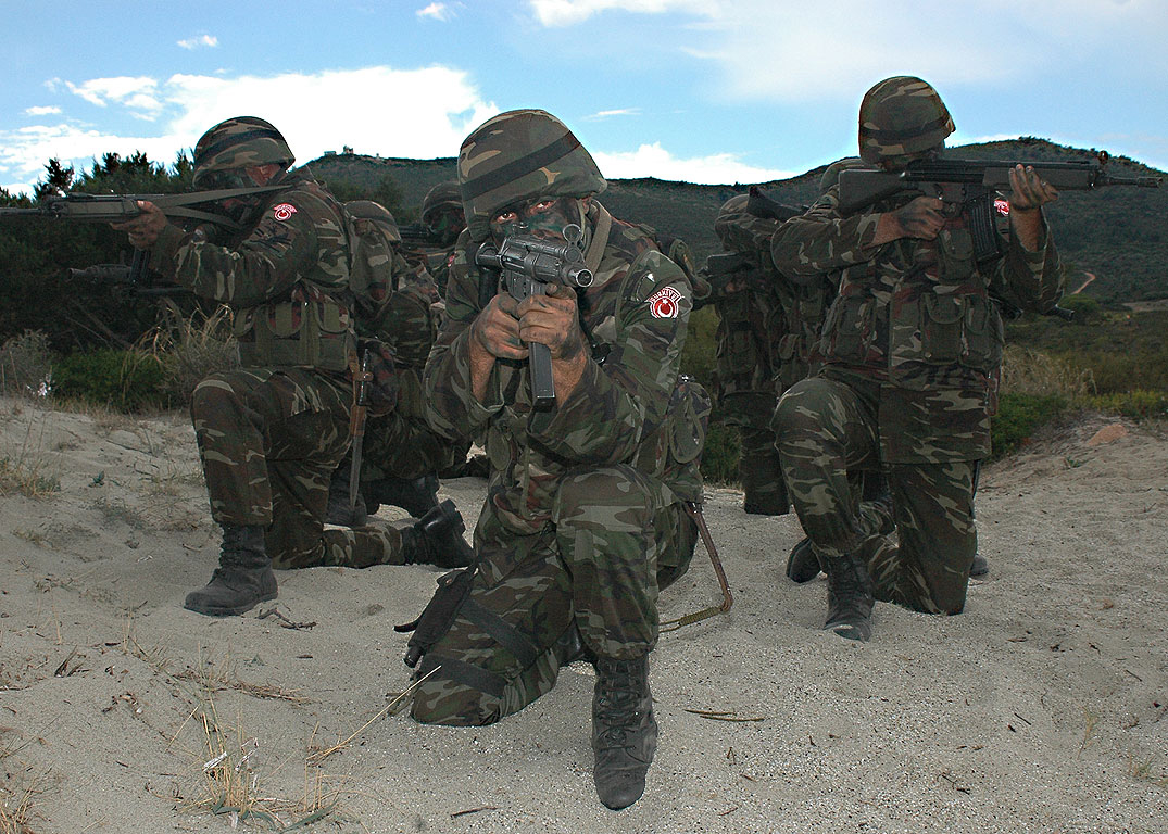 Turkish Marine Special Forces patrol on the Italian island of Sardinia during Destined Glory 2005 (Loyal Midas) military exercise, October 7, 2005. Photo by PH1 Timm Duckworth, USN.